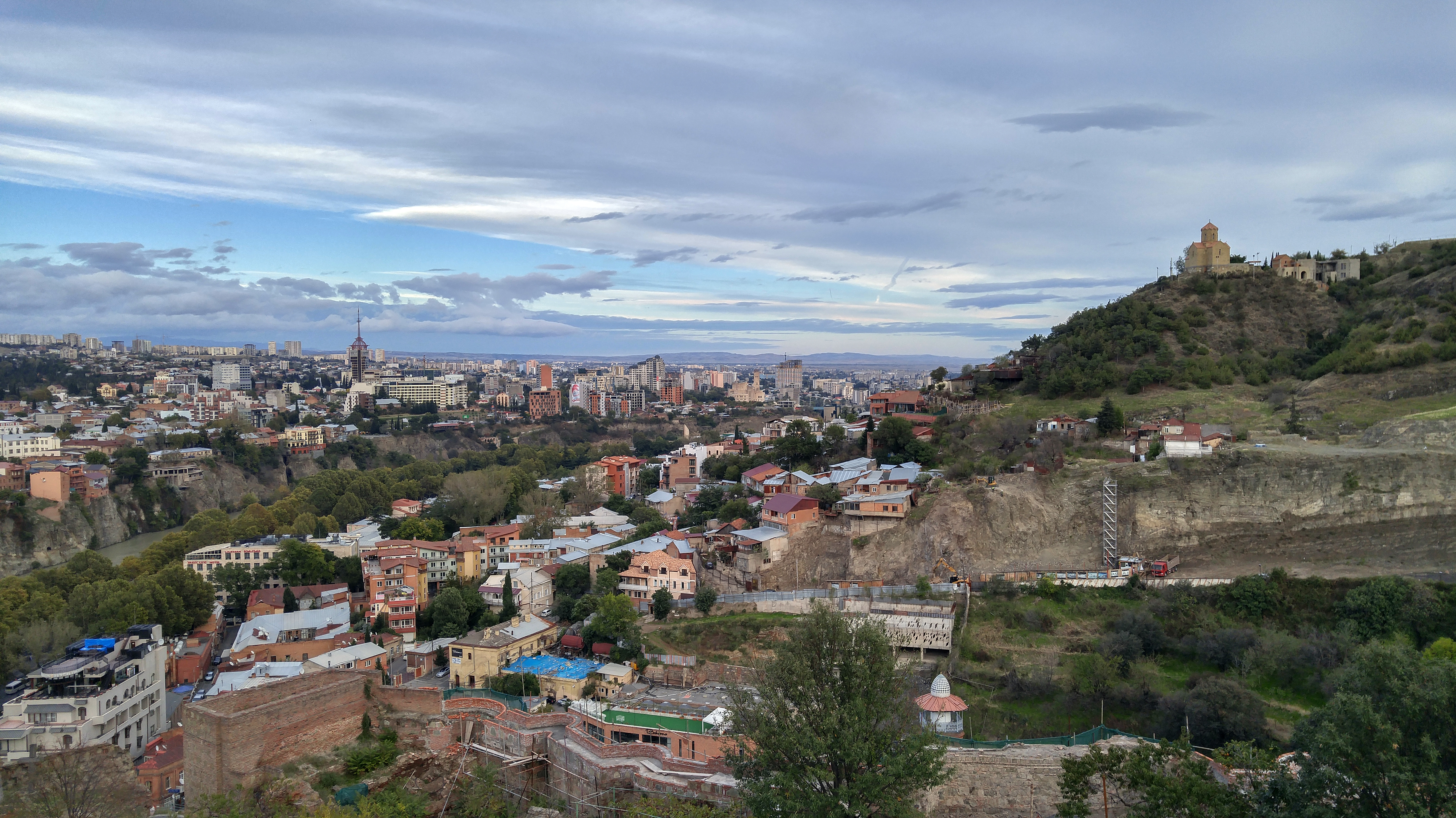 Tbilisi in some countries also still named by its pre-1936 international designation Tiflis is the capital and the largest city of Georgia, lying on the banks of the Kura River with a population of approximately 1.5 million people.